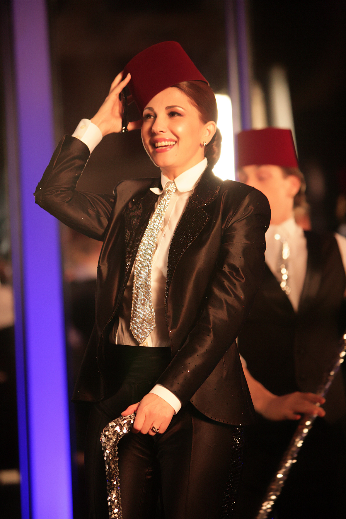 Majida El Roumi during the making of "'Etazalt Al Gharam" video clip, directed by Nadine Labaky in 2006.